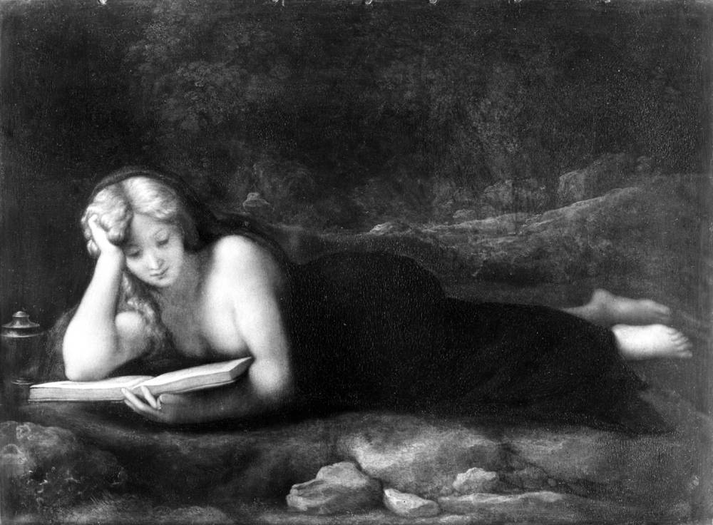 Die büßende Magdalena, Gal.-Nr. 154